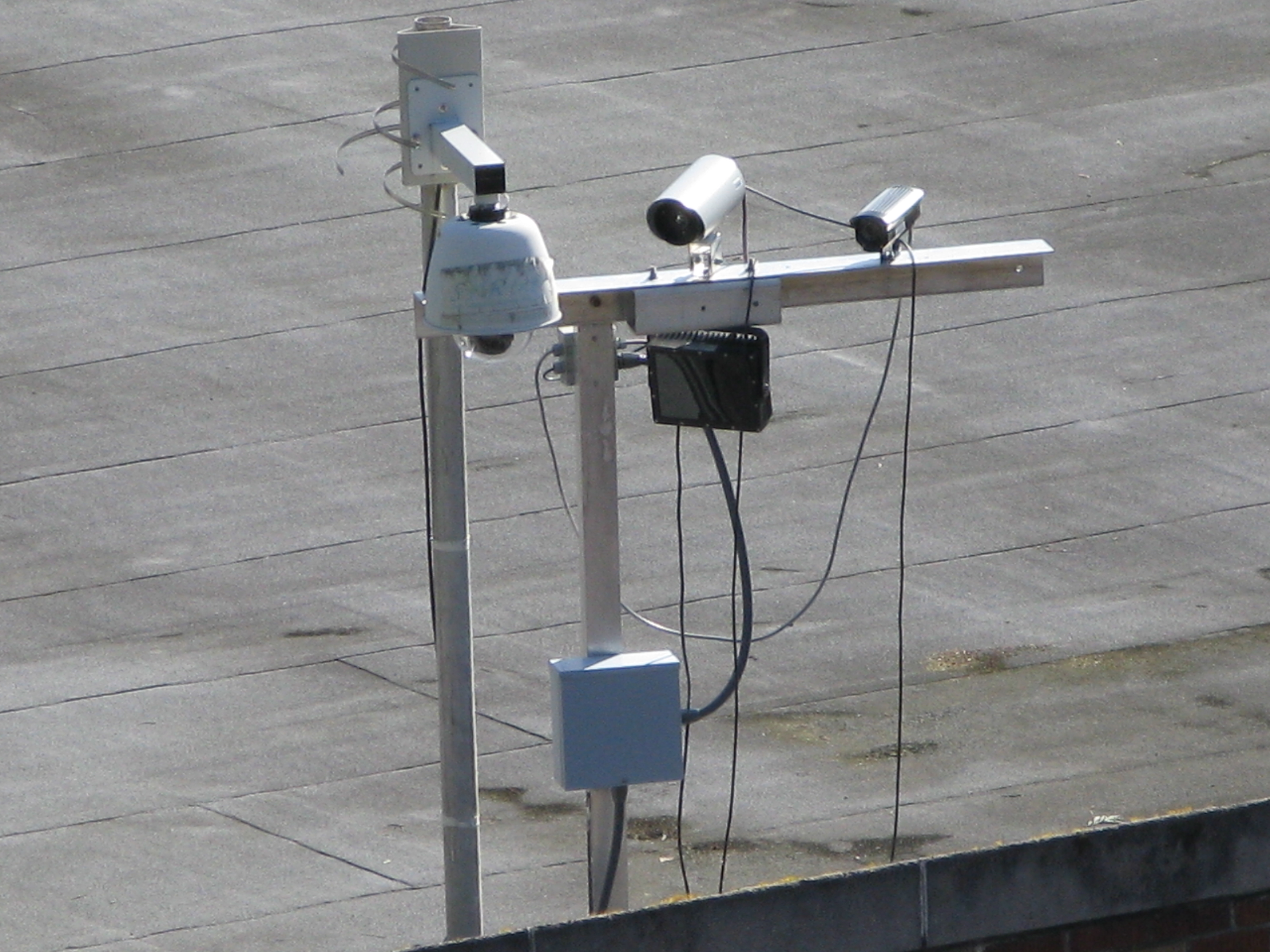 Includes visual and infrared cameras used in the research of intelligent transportation systems like vehicle/pedestrian detection and traveller information.